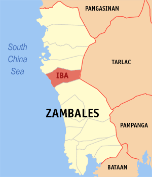 Map of Zambales showing the location of Iba